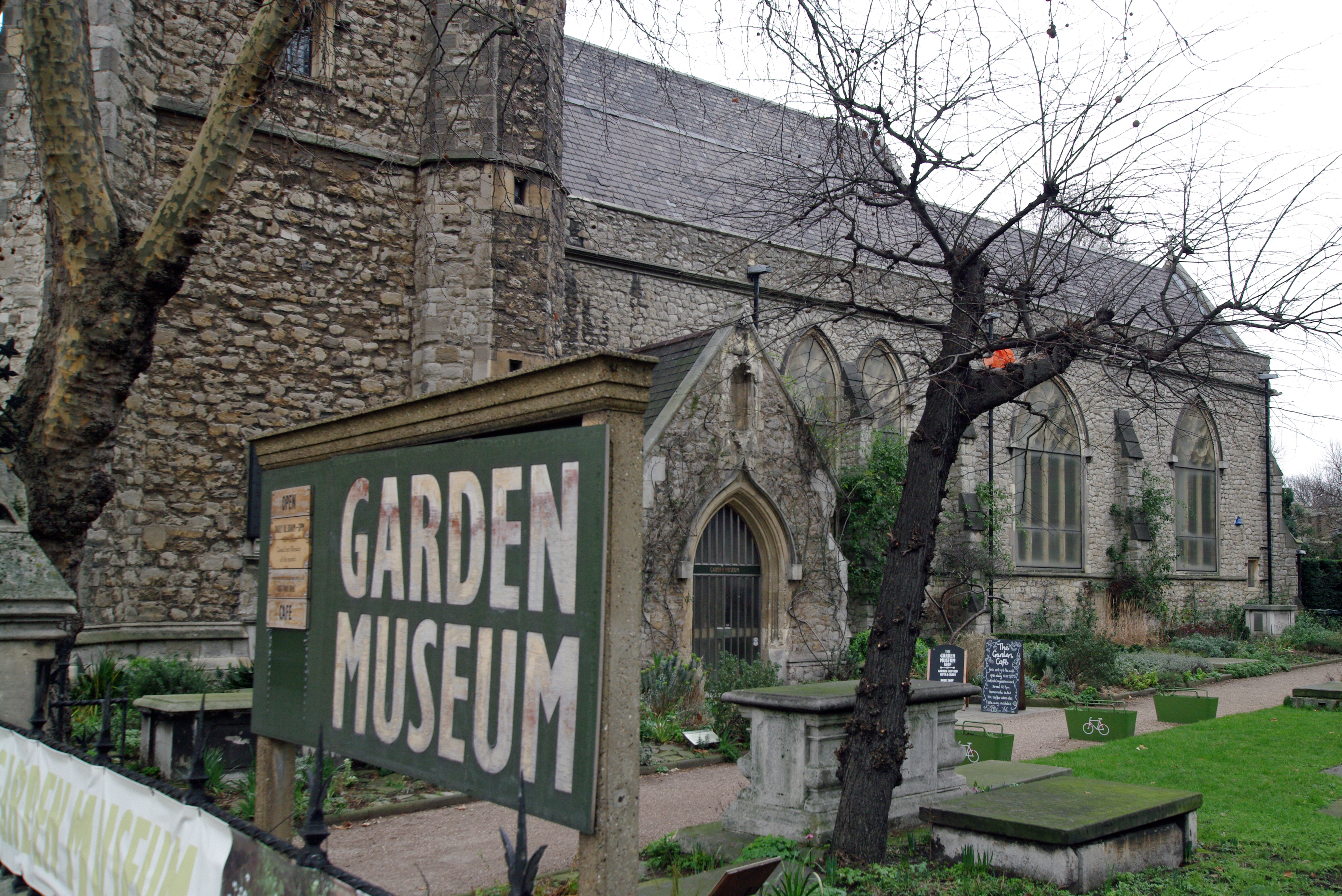 Entrance to the Garden Museum